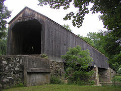 Photo of the Schofield Ford Covered Bridge in Bucks County, Pennsylvania taken by Michael Parker. Original